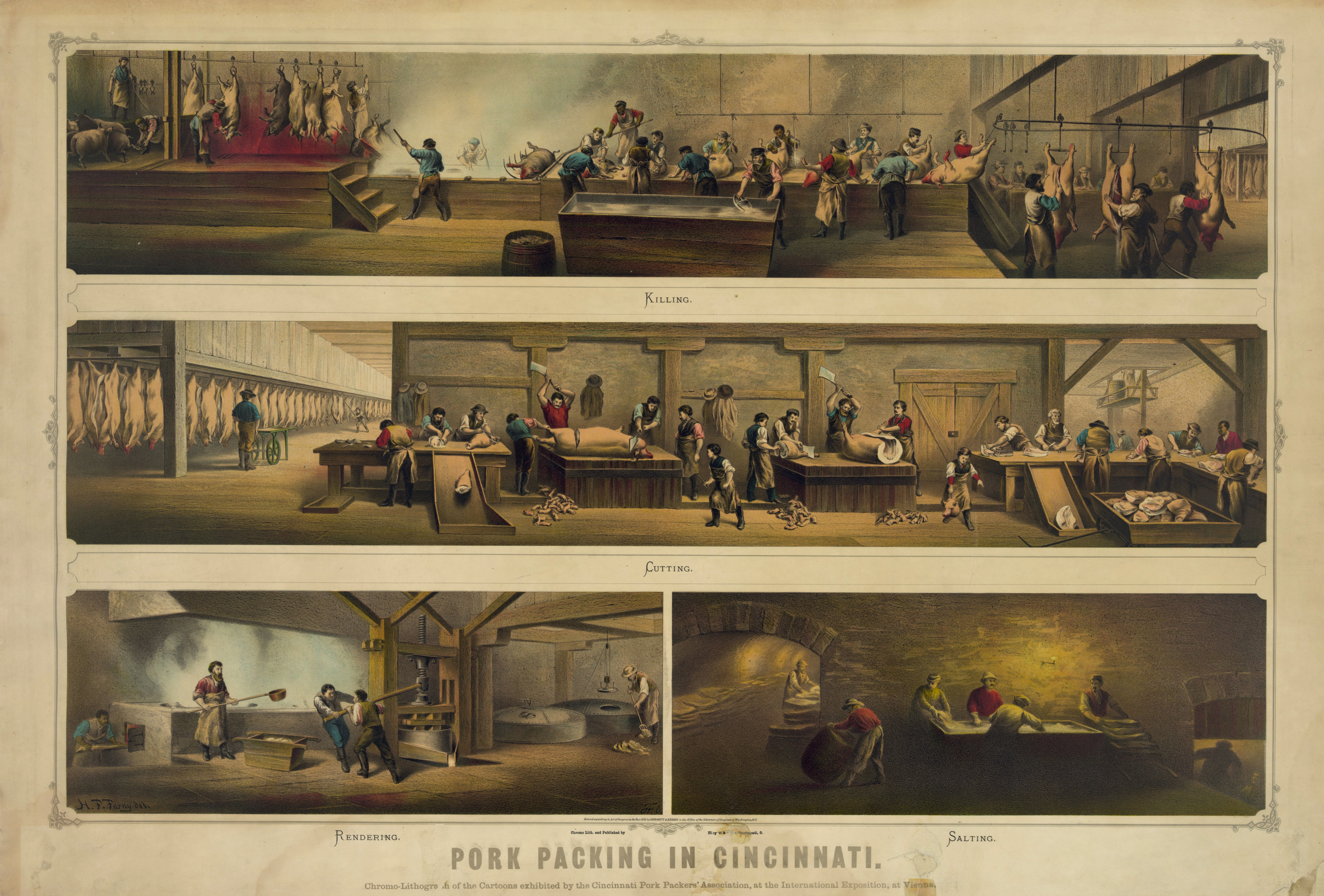 Pork packing in Cincinnati. Print showing four scenes in a packing house: "Killing, Cutting, Rendering, [and] Salting." Chromo-lithograph of the cartoons exhibited by the Cincinnati Pork Packers' Association, at the International Exposition, at Vienna. Entered according to Act of Congress in the year 1873 by Ehrgott & Krebs in the Office of the Librarian of Congress at Washington, D.C.